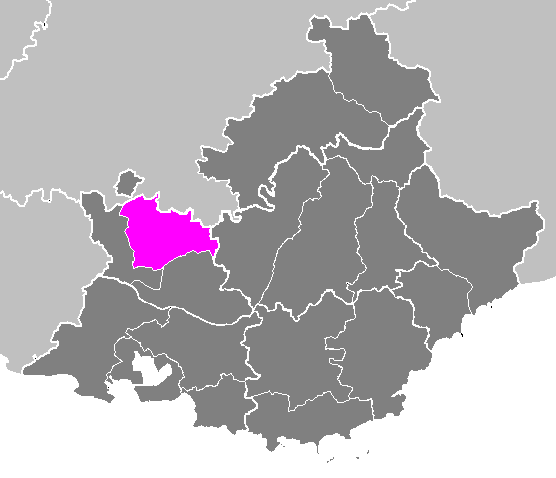 Maps of arrondissements and cantons of France: Arrondissement de Carpentras.PNG